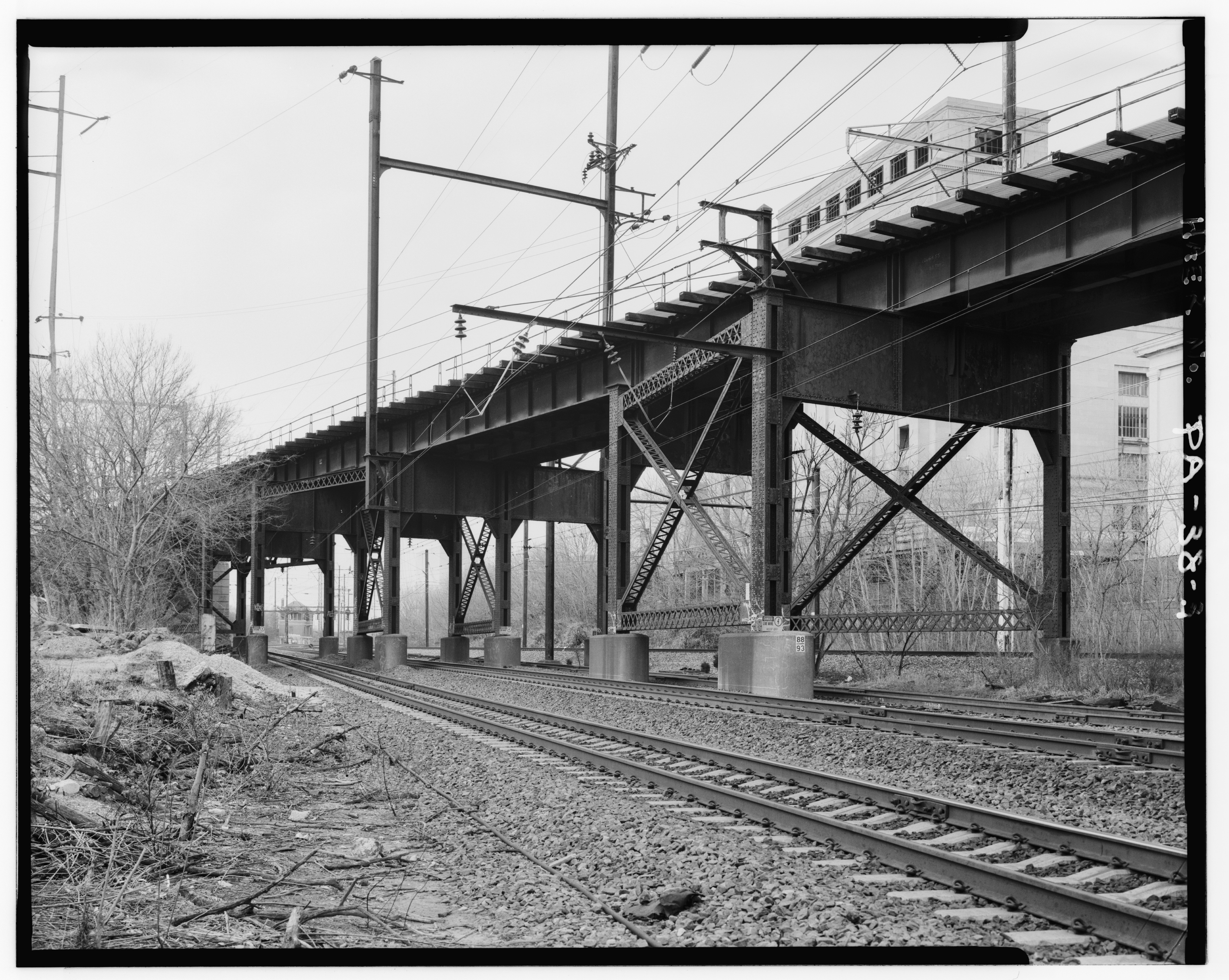 Southern end of the West Philadelphia Elevated in Philadelphia, Pennsylvania. The viaduct crosses the tracks of the Northeast Corridor to a very narrow angle. Therefore the steel supports are not in a right angle to the longitudinal beams.